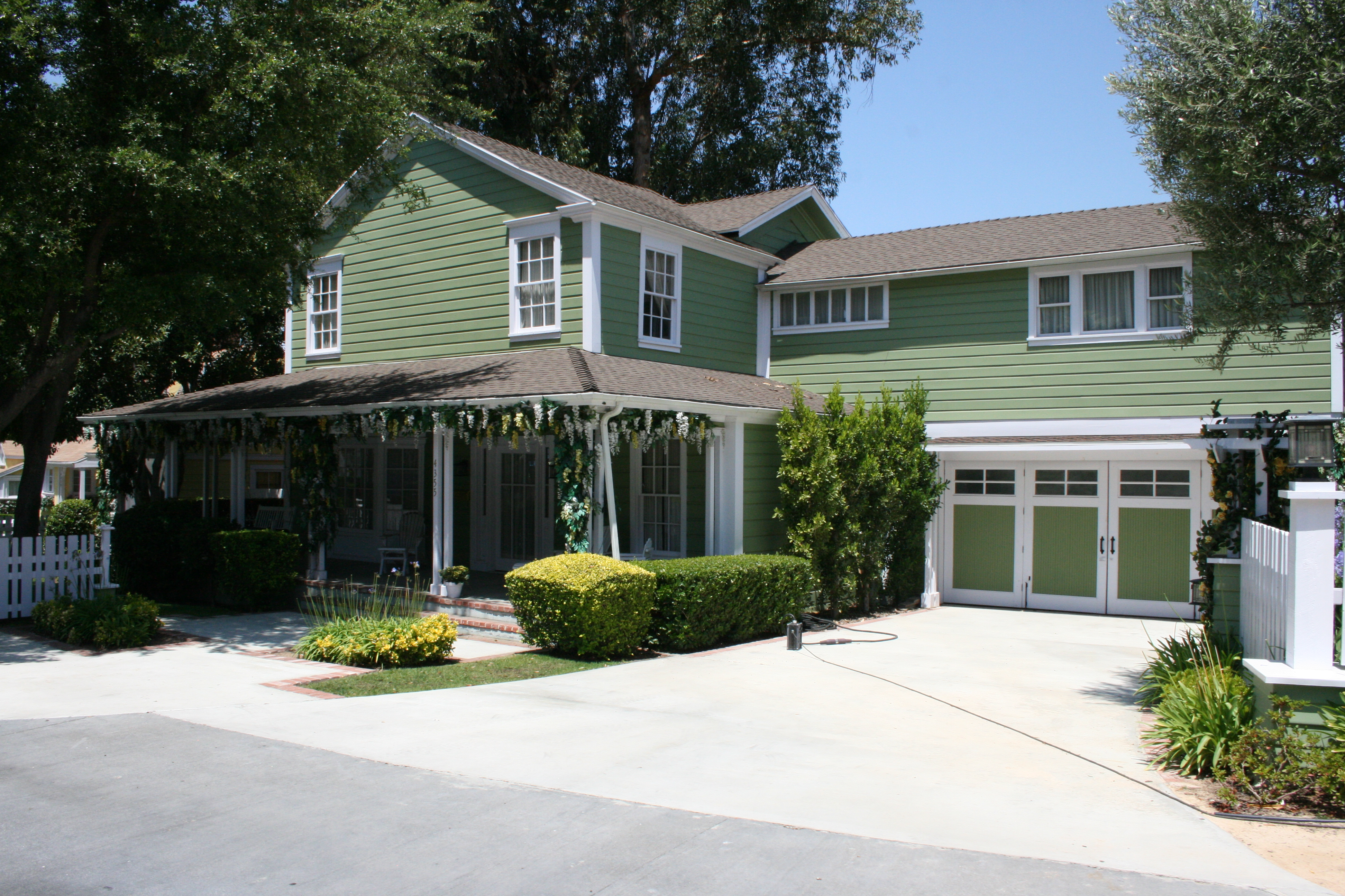 4355 Wisteria Lane, the home of the Scavos family in Desperate Housewives